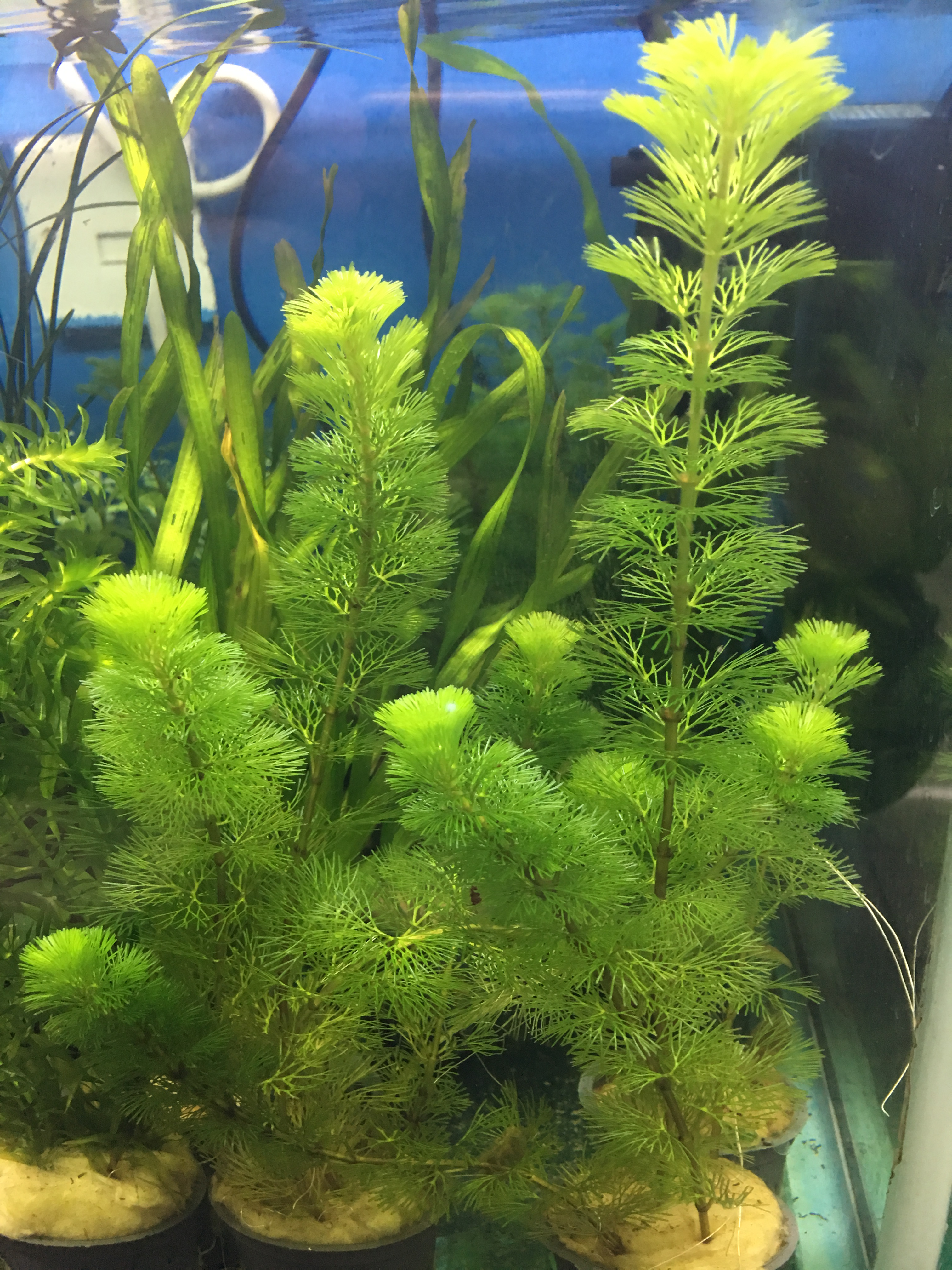 Cabomba aquatica, Fresh Water Aquatic Plant, Water Plants, Aquarium Plant